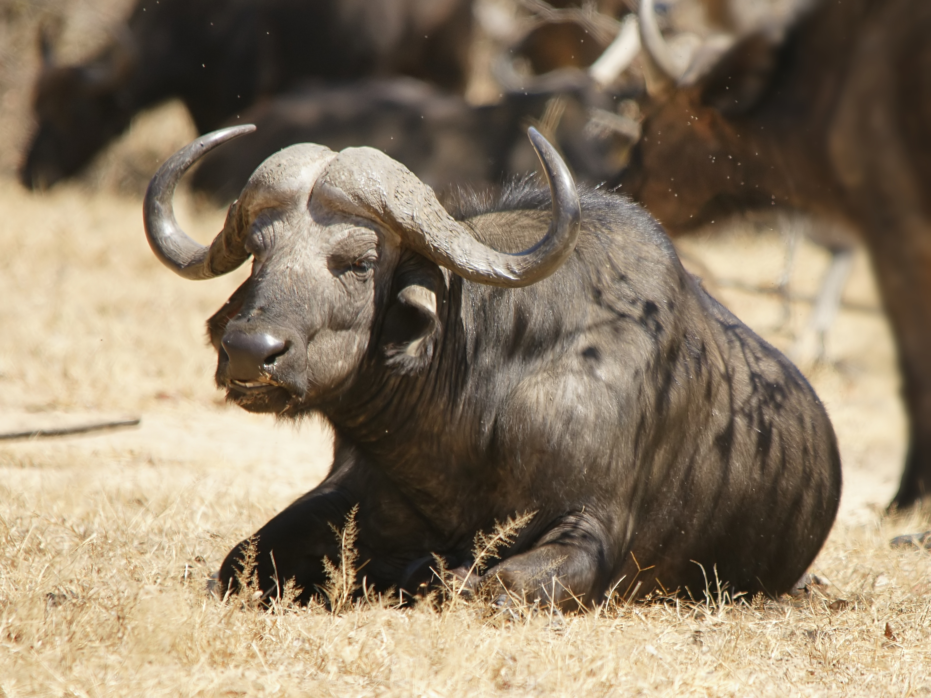 Male Cape buffalo at Mosi-oa-Tunya National Park near Livingstone, Zambia